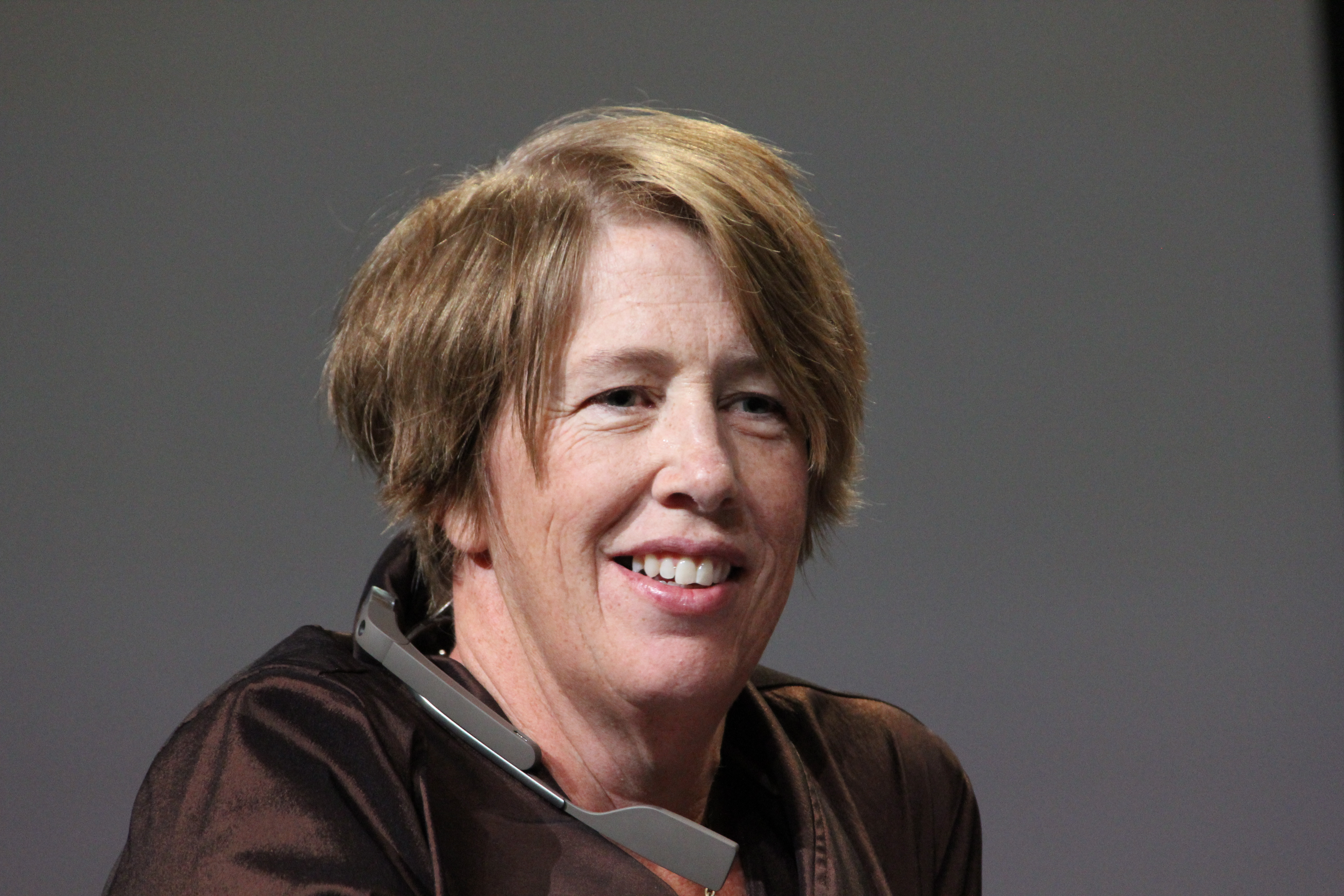 Mary Lou Jepsen at Google I/O 2013 in San Francisco